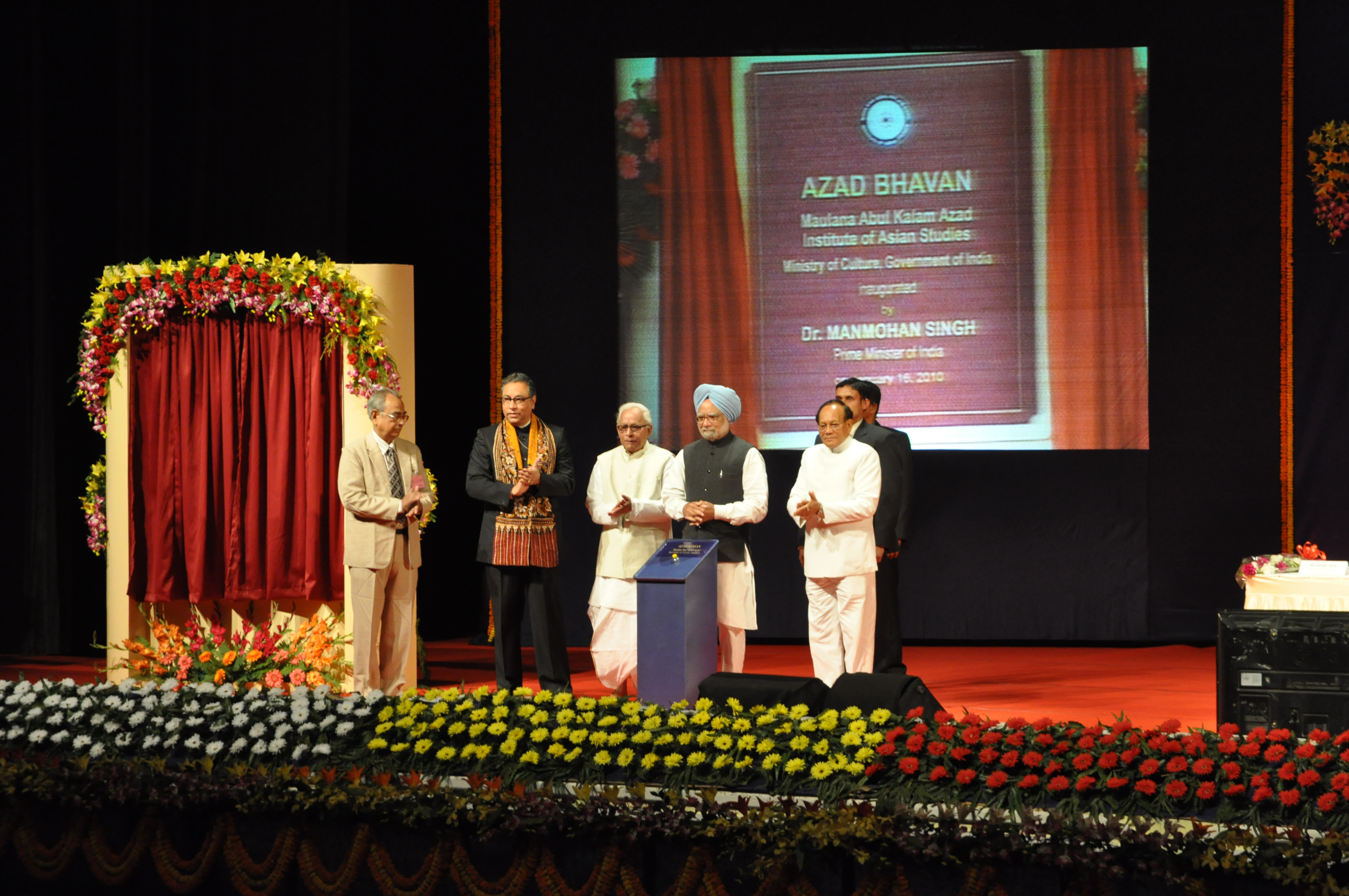 The 'Science Exploration Hall' foundation stone laying (remotely) ceremony of the 'Science City', Kolkata and the 'Azad Bhavan' inauguration (remotely) of the 'Maulana Abul Kalam Azad Institute of Asian Studies' (MAKAIAS) in Kolkata both functions were held at the Science City main auditorium on 16 January 2010 in Kolkata. The Indian Prime Minister, Dr, Manmohan Singh laid and inaugurated both the events respectively and addressed after that. The Governor of West Bengal, Devanand Konwar, the Chief Minister of West Bengal, Buddhadeb Bhattacharya and Jawhar Sircar the Secretary, Ministry of Culture, Govt. of India were present alongwith two thousand distinguished guests and school students..